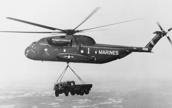 The U.S. Marine Corps Sikorsky CH-53A Sea Stallion helicopter lifts a large truck in the 1960s.